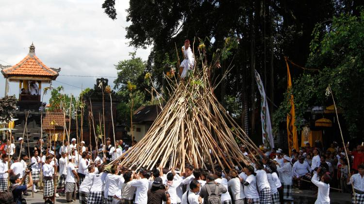 Mekotekan, Balinese tradition